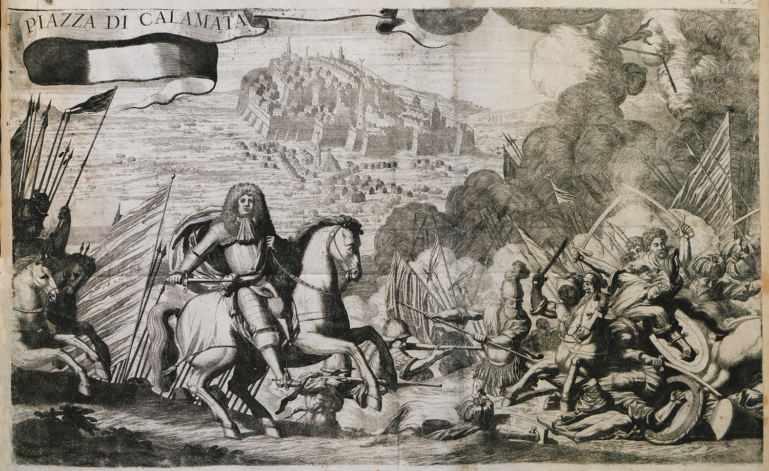 Vincenzo Coronelli. Morea, Negroponte & adiacenze, Venice, ca. 1708